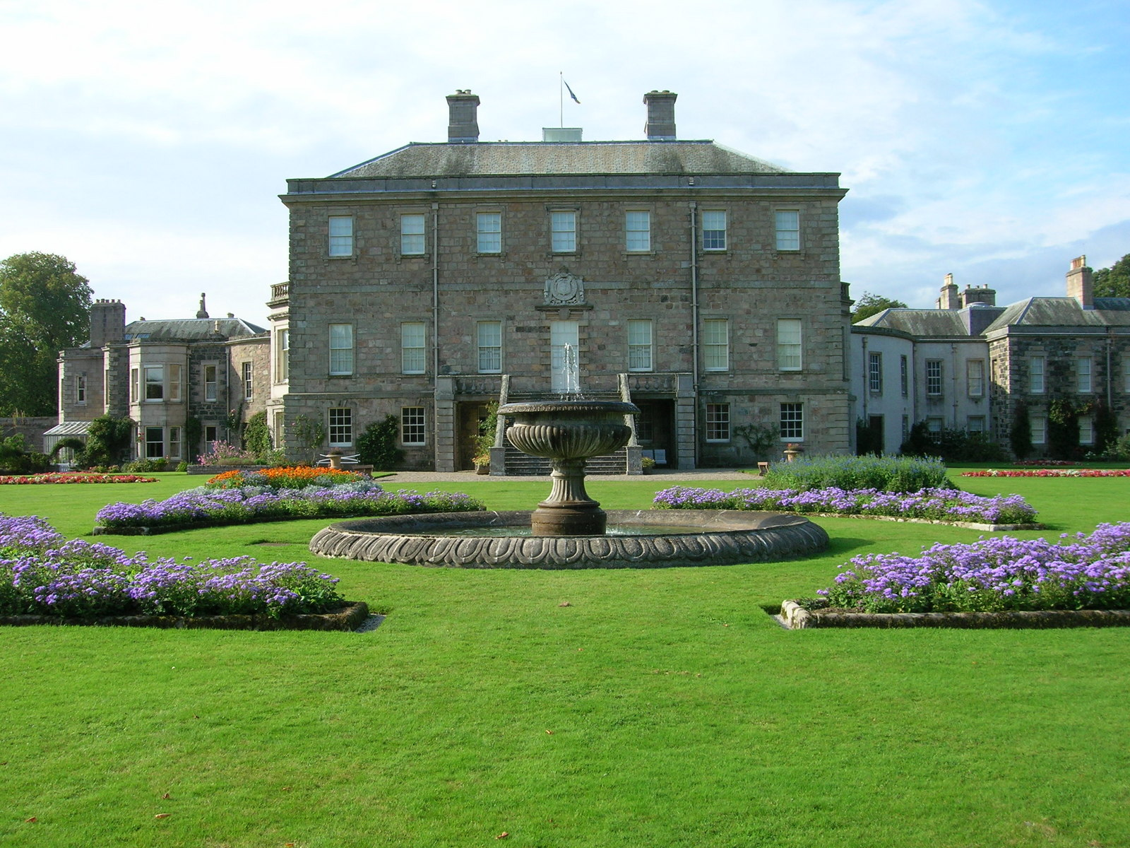 Haddo House Haddo House is one of the most beautiful stately homes open to the public in Scotland.